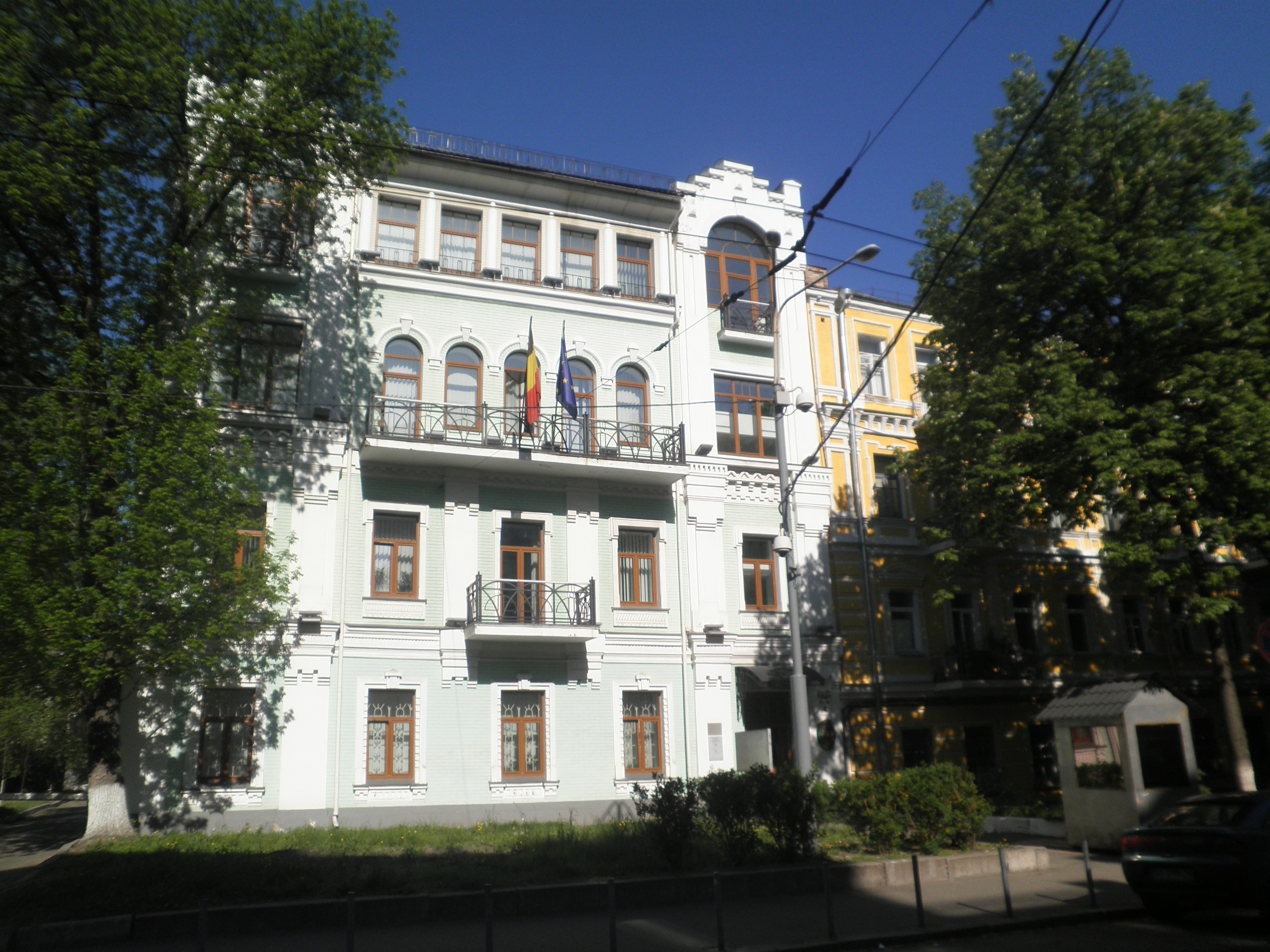 Embassy of Belgium in Kiev